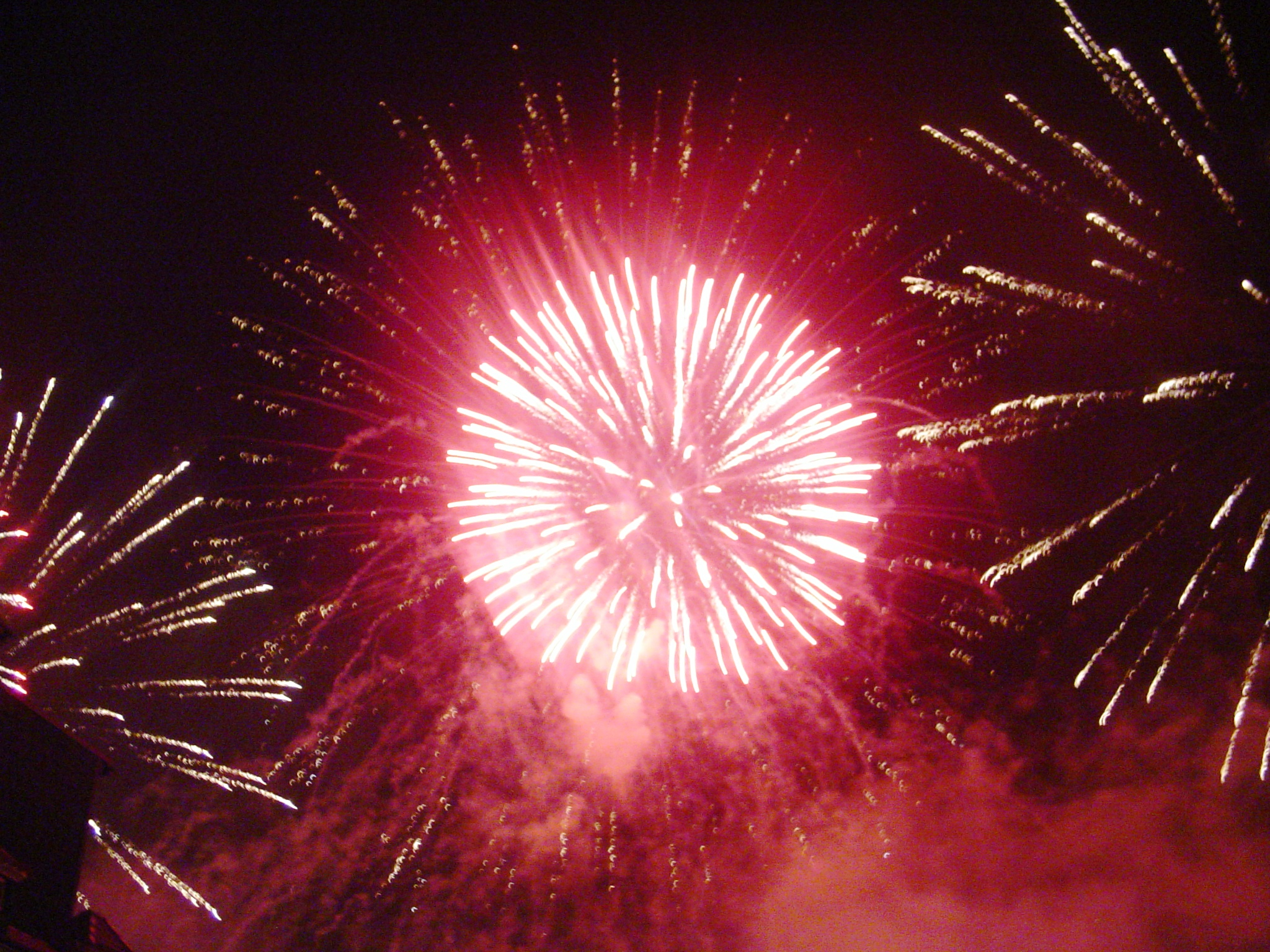 Firework